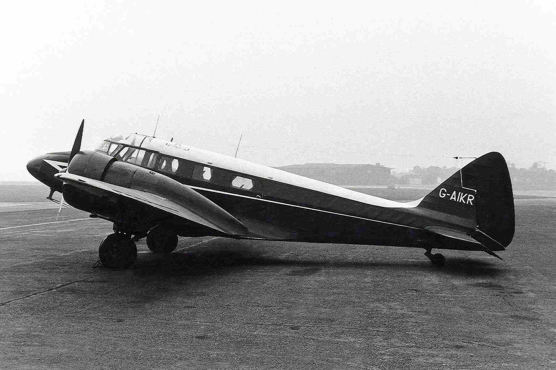 It wasn't just a normal 'grey day' at Liverpool (LPL), it's in black and white... o)